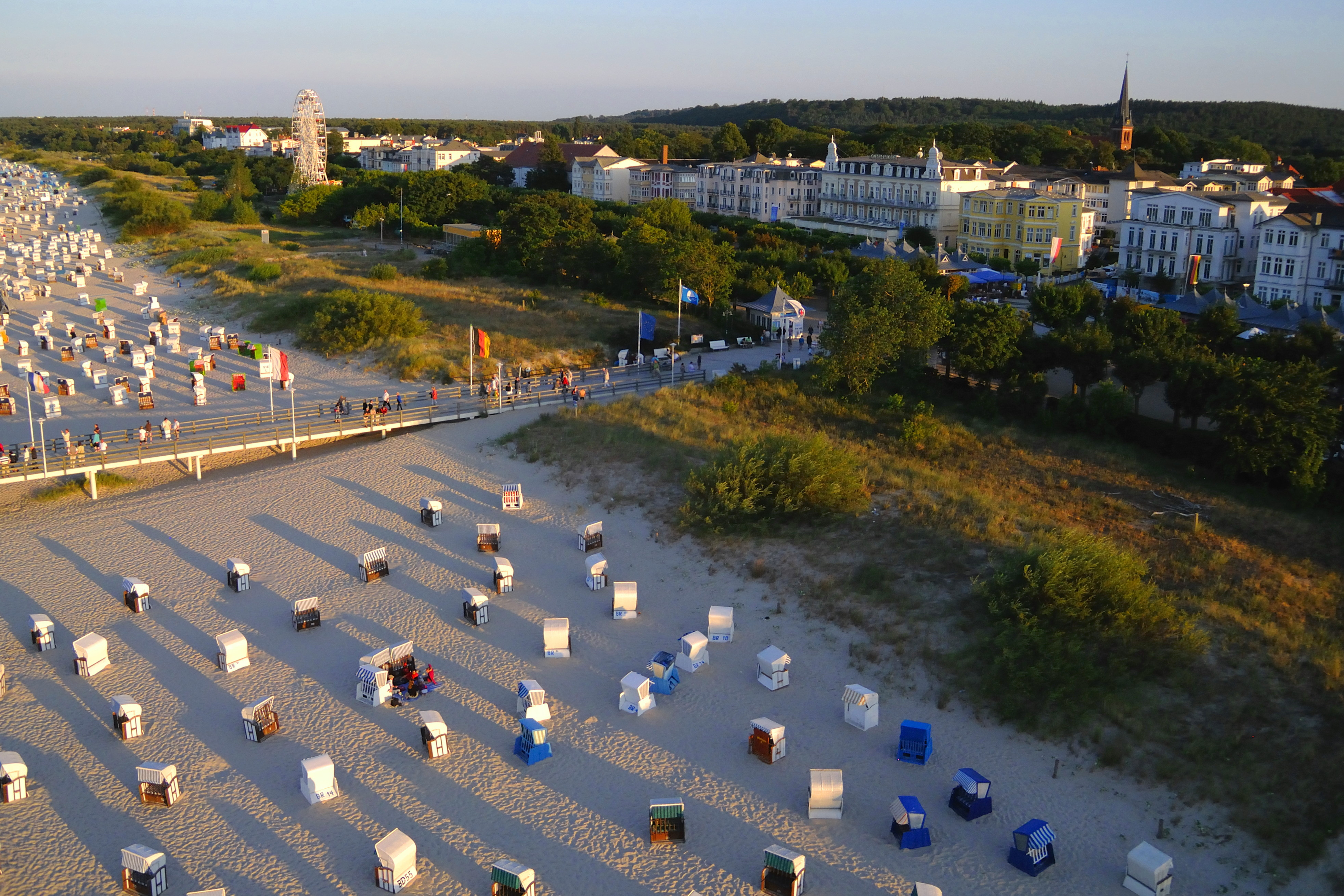 KAP (Kite Aerial Photography)